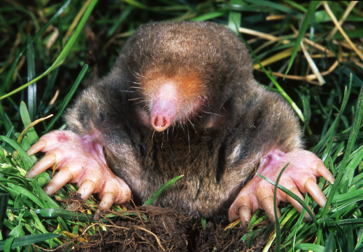 A photograph of Scalopus aquaticus. The eastern American mole (Scalopus aquaticus linnacus) showing the large forelimbs used to excavate tunnels.